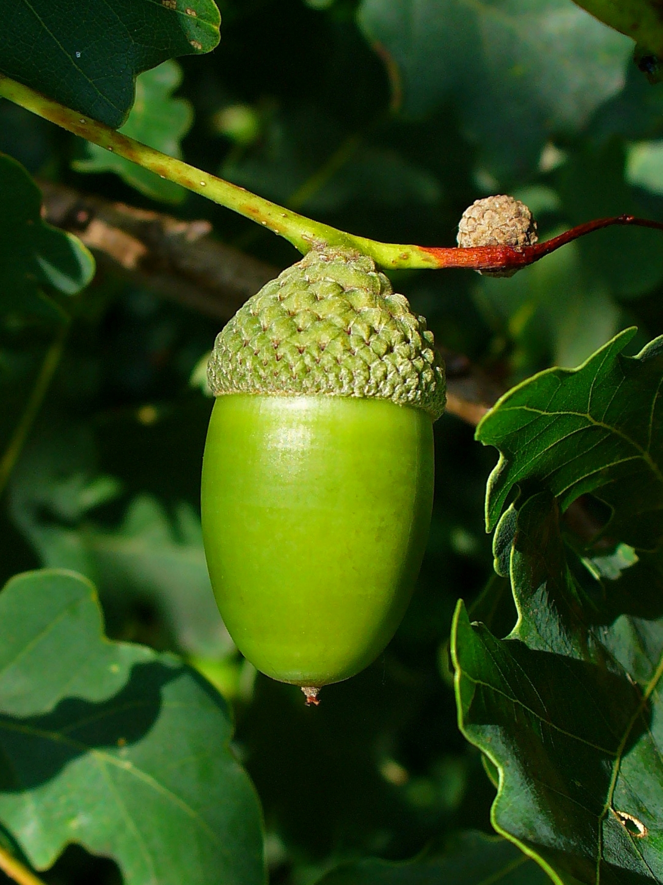 Quercus robur, Fagaceae, Pedunculate Oak, English Oak, fruit. Karlsruhe, Germany.